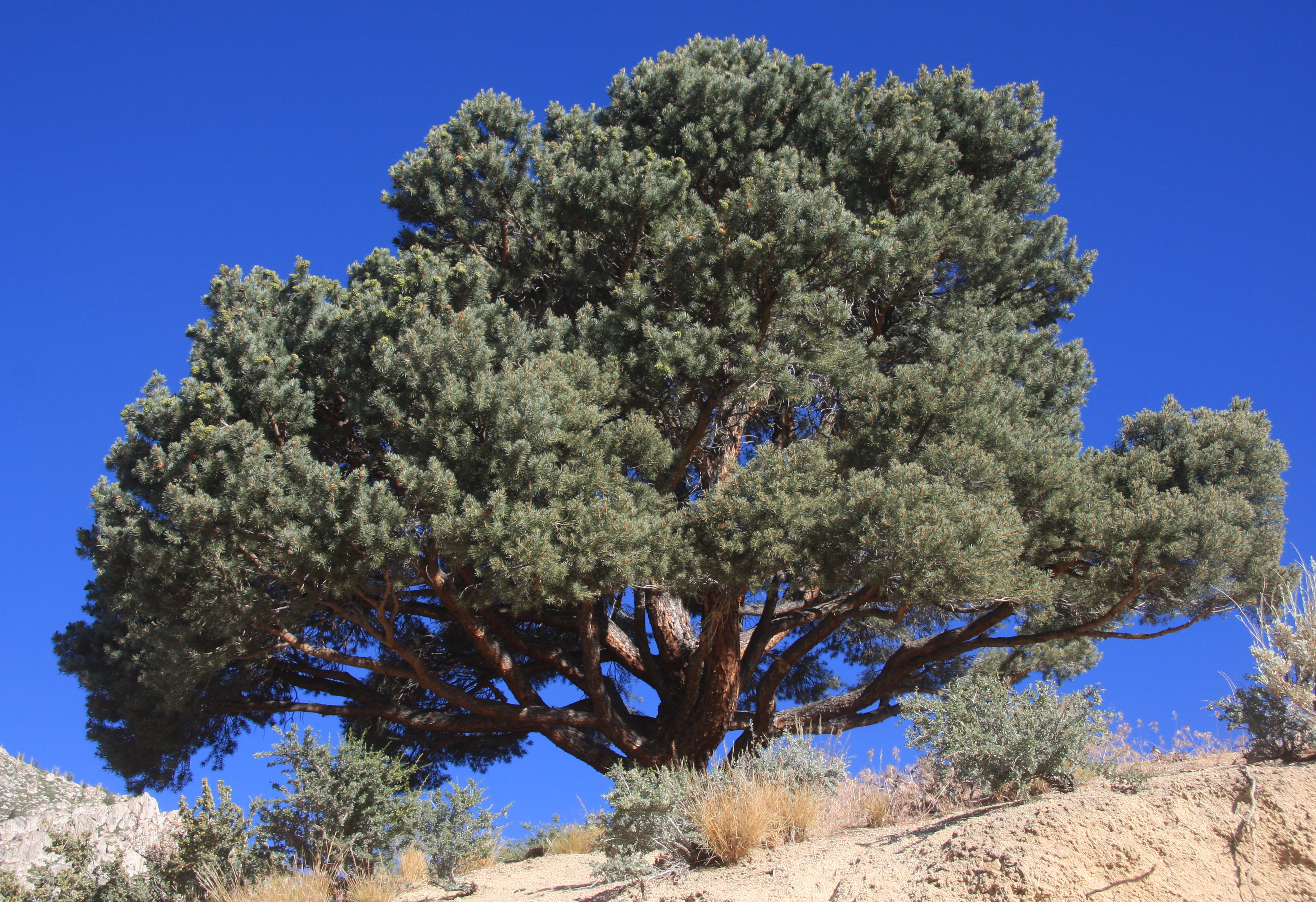 Pinyon pine (Pinus monophylla) tree, with green cones. At 7000ft in Swall Meadows, Mono County, California.